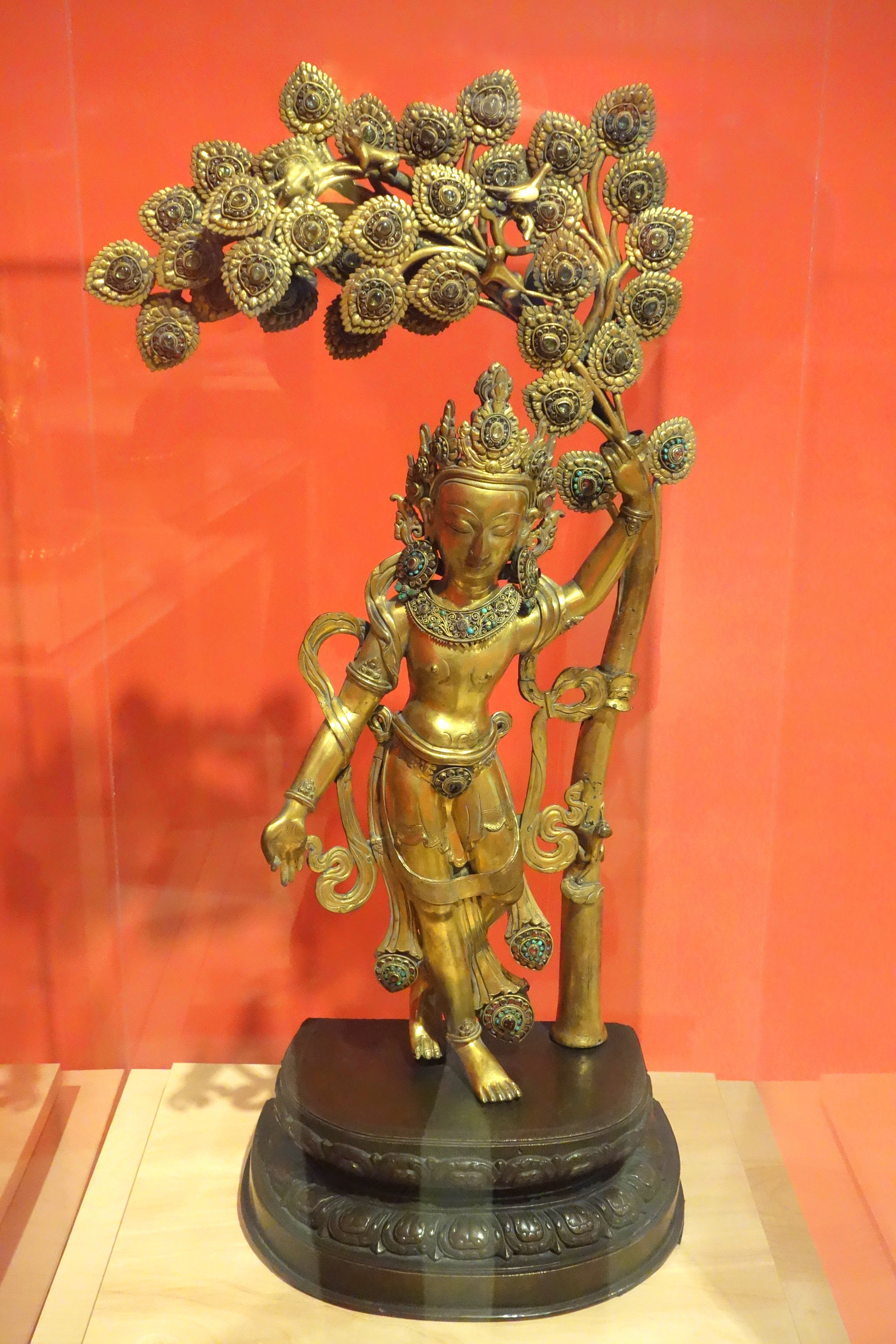 hibit in the Berkeley Art Museum and Pacific Film Archive, 2625 Durant Avenue #2250, Berkeley, California, USA. This museum is part of the University of California, Berkeley. This artwork is in the public domain because the artist died more than 70 years ago. Photography of this exhibit was permitted without restriction.